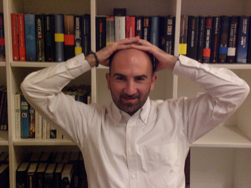 Donato Carrisi, Italian writer